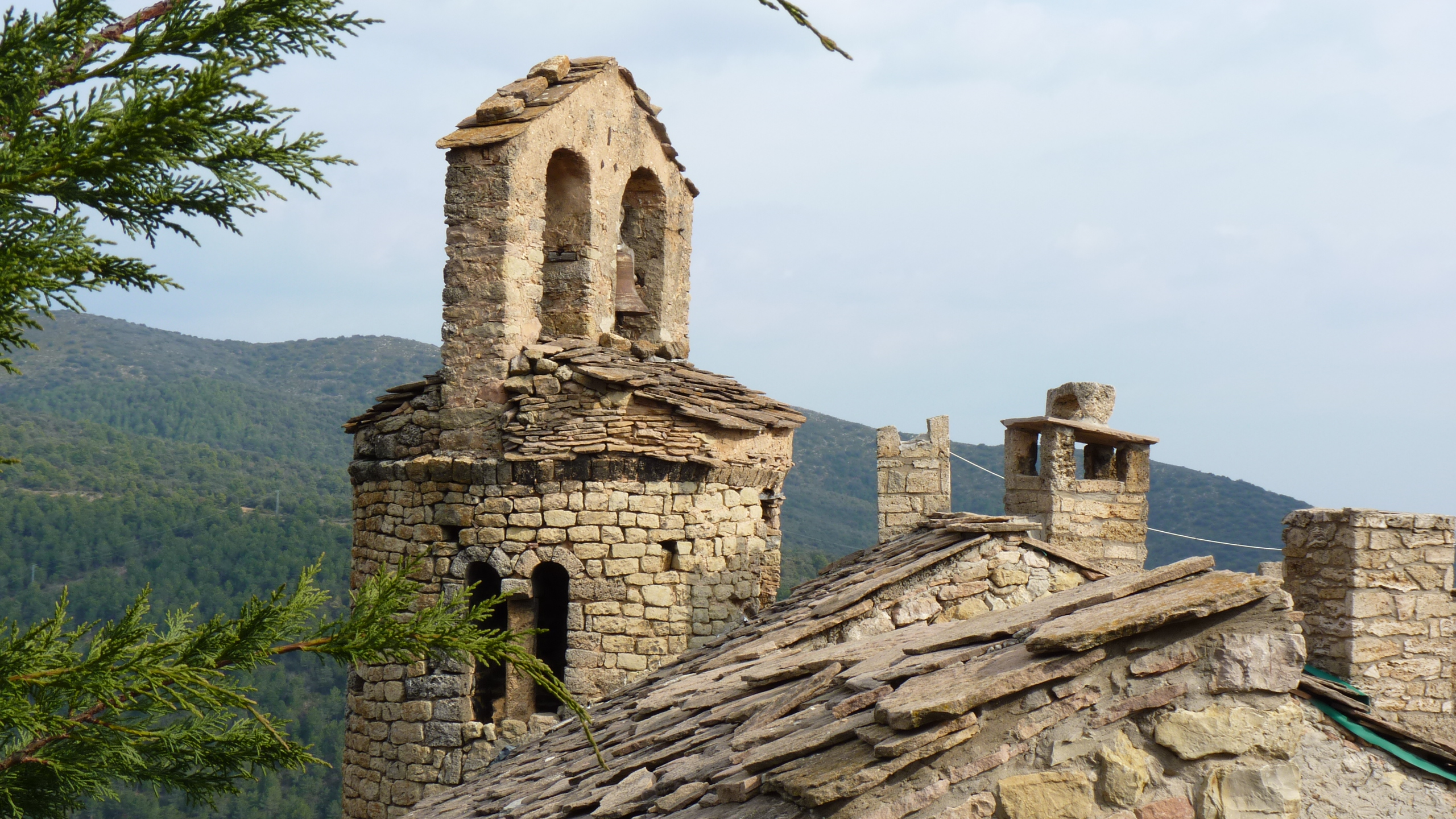 poble de gavarra